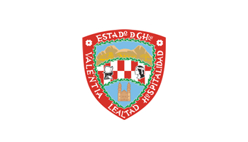 Flag of the State of Chihuahua, Mexico.